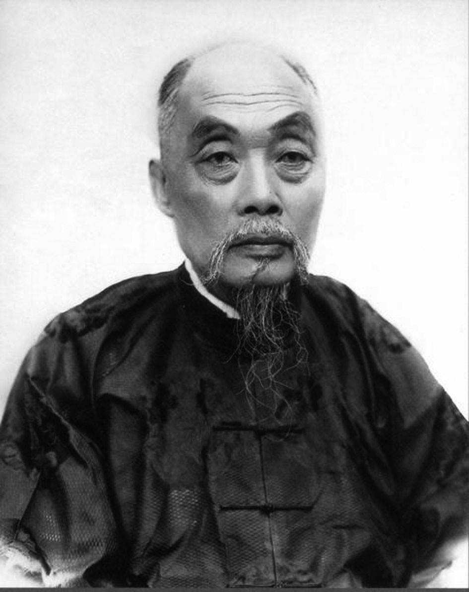 Zhang Jian (Chinese: 张謇; 1853 - 1926), courtesy name Jizhi (季直), sobriquet Qiang'an (啬庵), was a Chinese entrepreneur, politician and educationist.